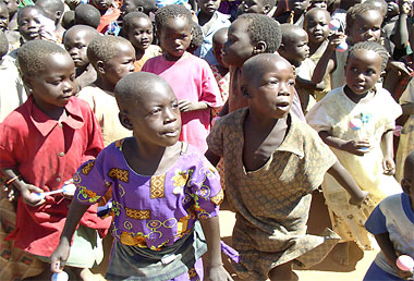 Picture of children displaced by the insurgency of the Lord's Resistance army of Northern Region of Uganda — into Labuje camp near Kitgum Town. Original caption: "Ugandan children suffer the most from this 18 year conflict".